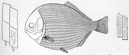 Fig. 174.—Tetragonolepis (restored), and scales of the same. Lias.